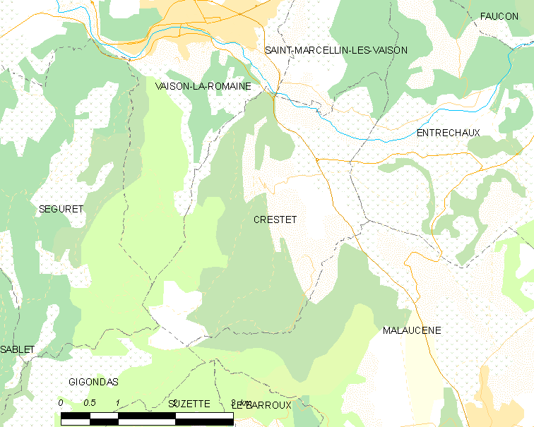 Map of French municipality Crestet